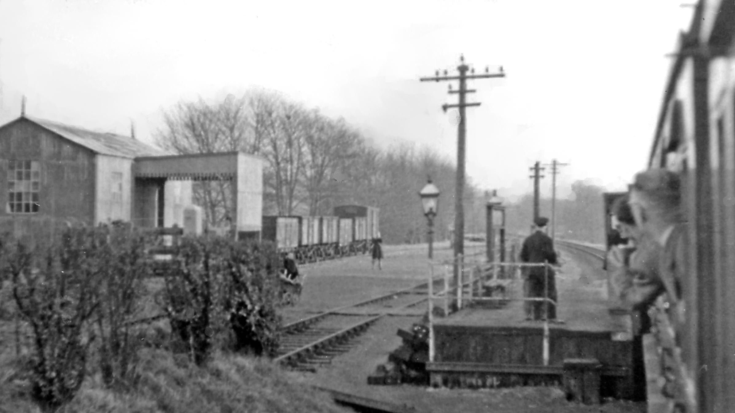 Farringdon Halt, on the Last Day of the Meon Valley Branch. View SE from an Alton - Fareham train on February 5 1955 - the last day of the passenger service; goods continued Alton - Farringdon until 5/8/68. [Regrettably, not a good photograph - but it was a dull and cold February morning].